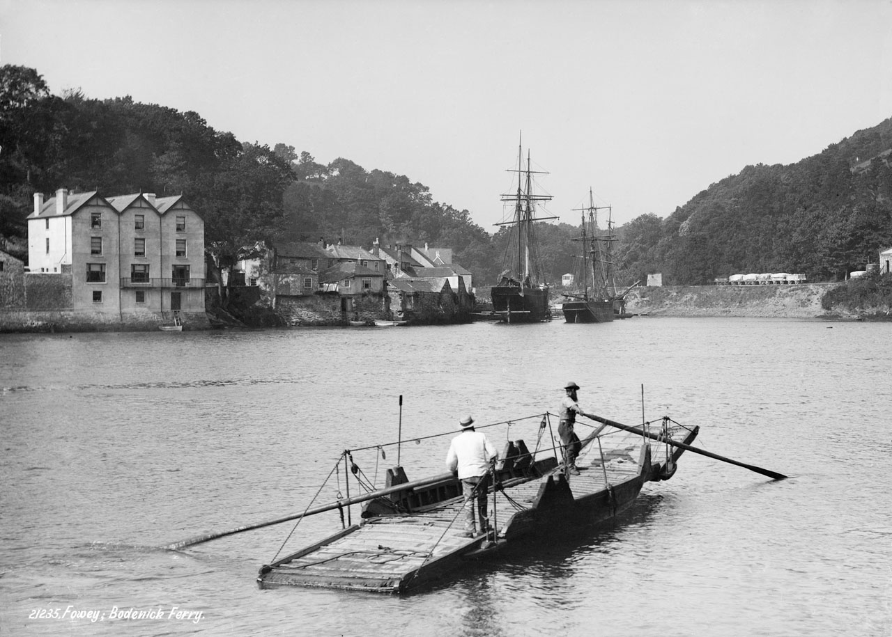 Glass photonegative depicting the Bodinnick ferry, Fowey, Cornwall.